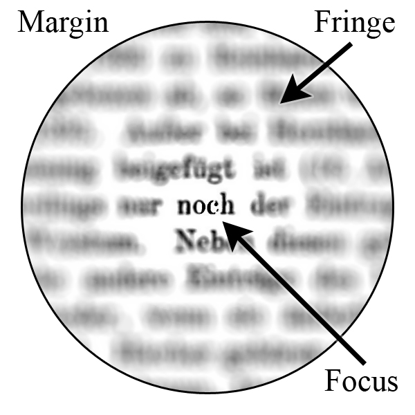 The spotlight model of attention.